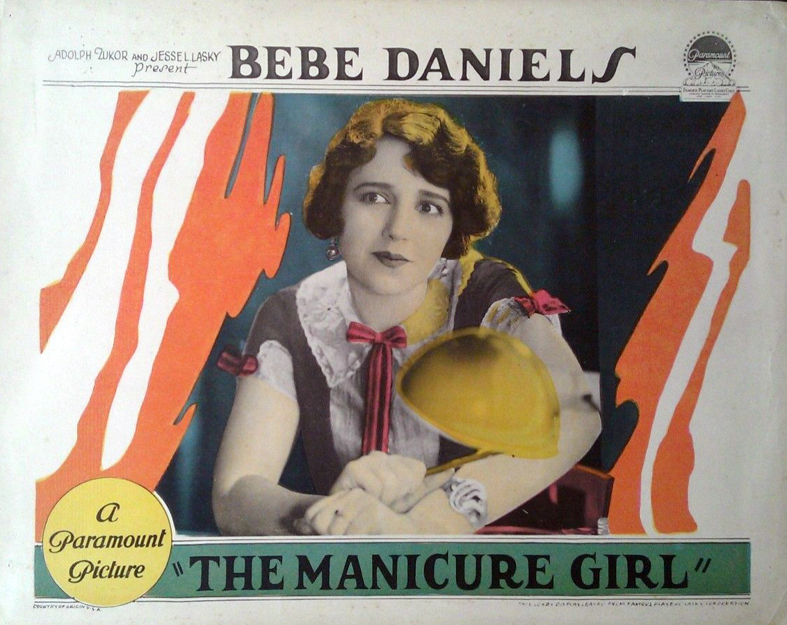 Lobby card for the American drama film The Manicure Girl (1925). The item has no copyright markings on it as can be seen in the links above. At bottom left is Country of origin USA. At bottom right is This lobby display leased from Famous Players Lasky Corporation.